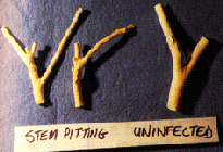 Citrus Tristeza Virus stem pitting